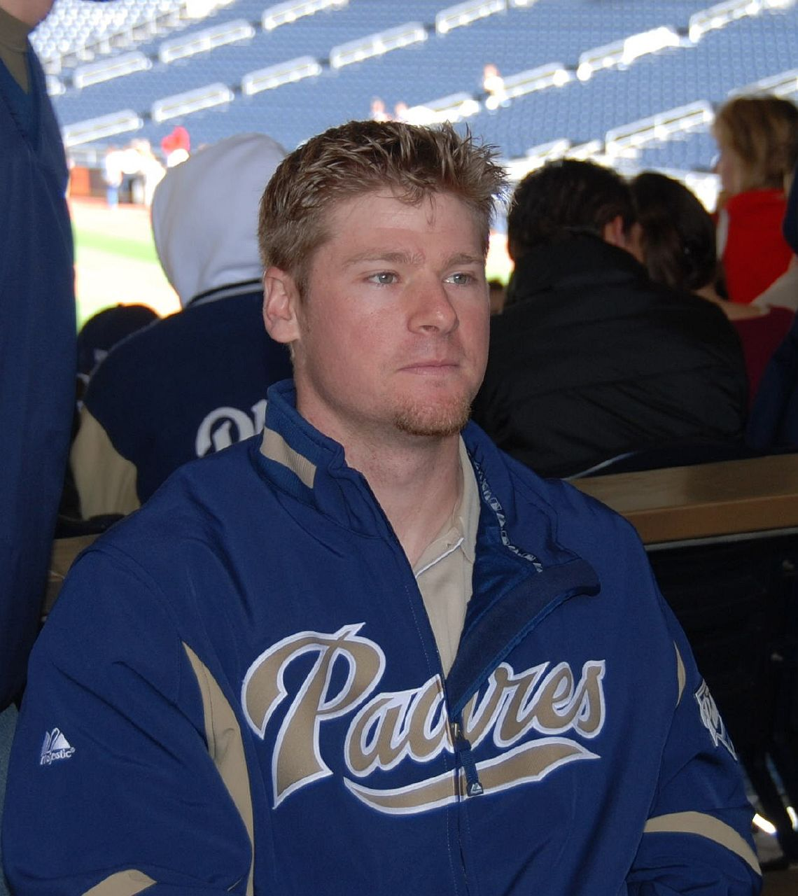 Chase Headley signing autographs at Friar Fest in Jan 2008 at Petco park